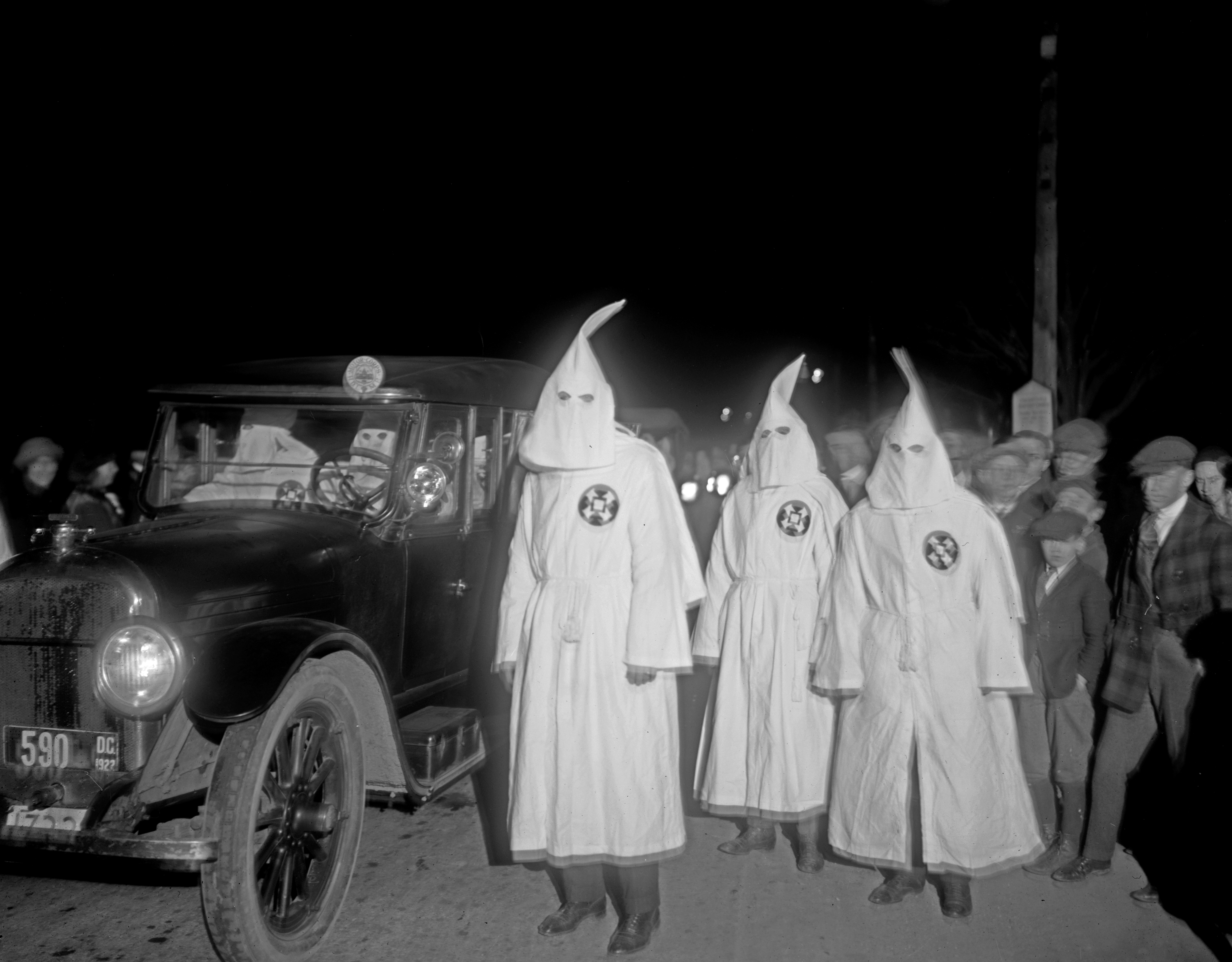 Three Ku Klux Klan members standing beside automobile driven by Klan members at a Ku Klux Klan parade through counties in Northern Virginia bordering on the District of Columbia